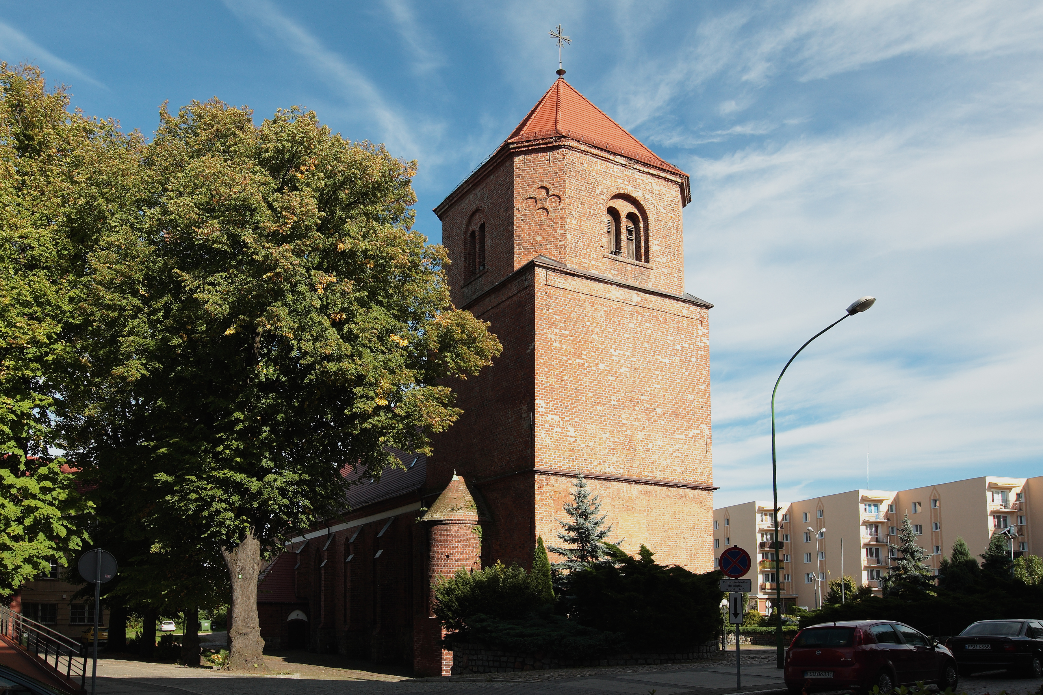 Sulęcin - church, XIII, XIV, 1951